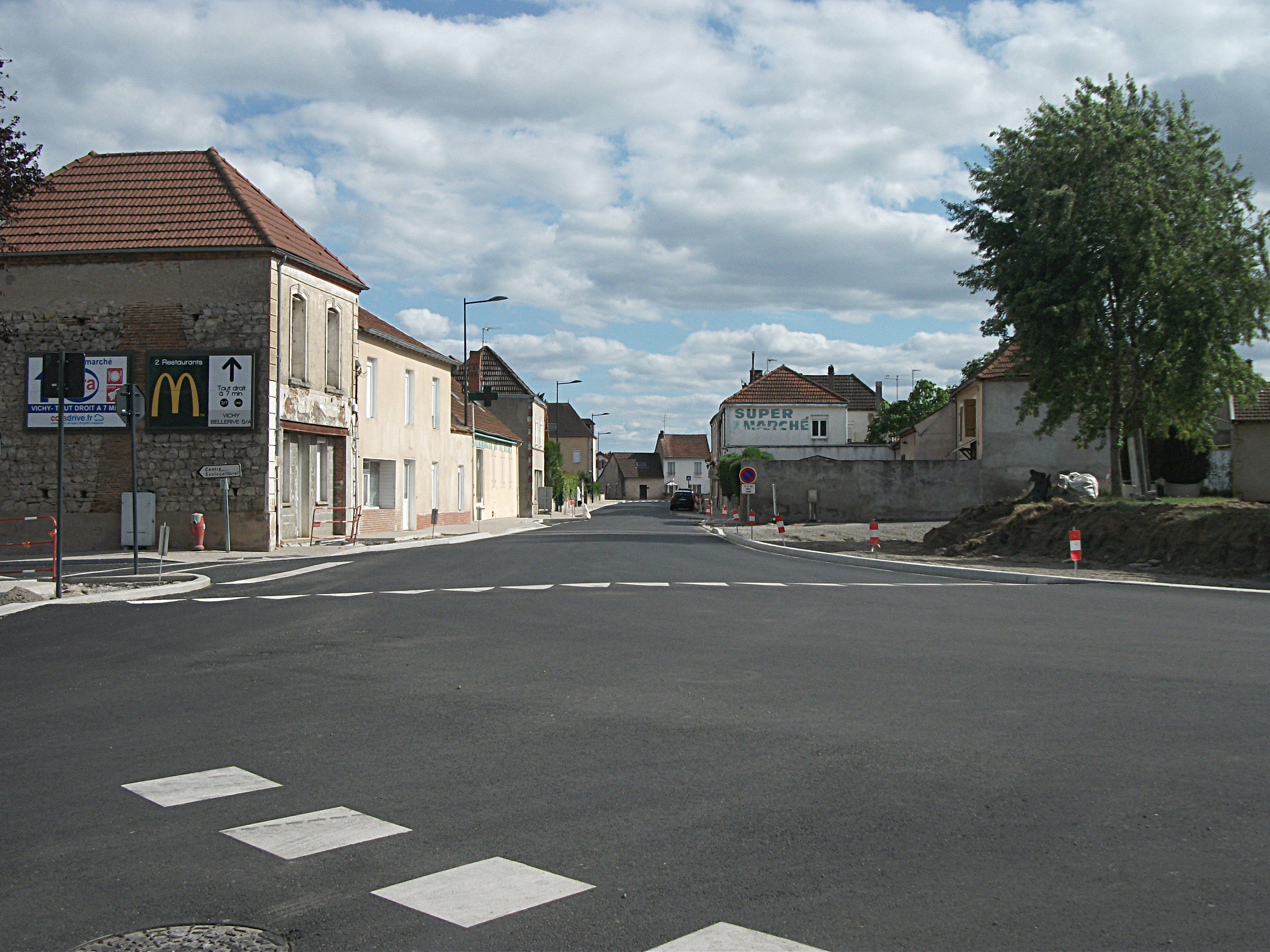 Departmental road 6 (rue de Vichy), renovated, towards Vichy, in Saint-Rémy-en-Rollat, Allier, Auvergne-Rhône-Alpes, France. [14860]